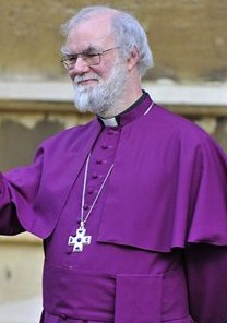 This is a publicity photo of Archbishop Williams, used by the Collegium Augustinianum.